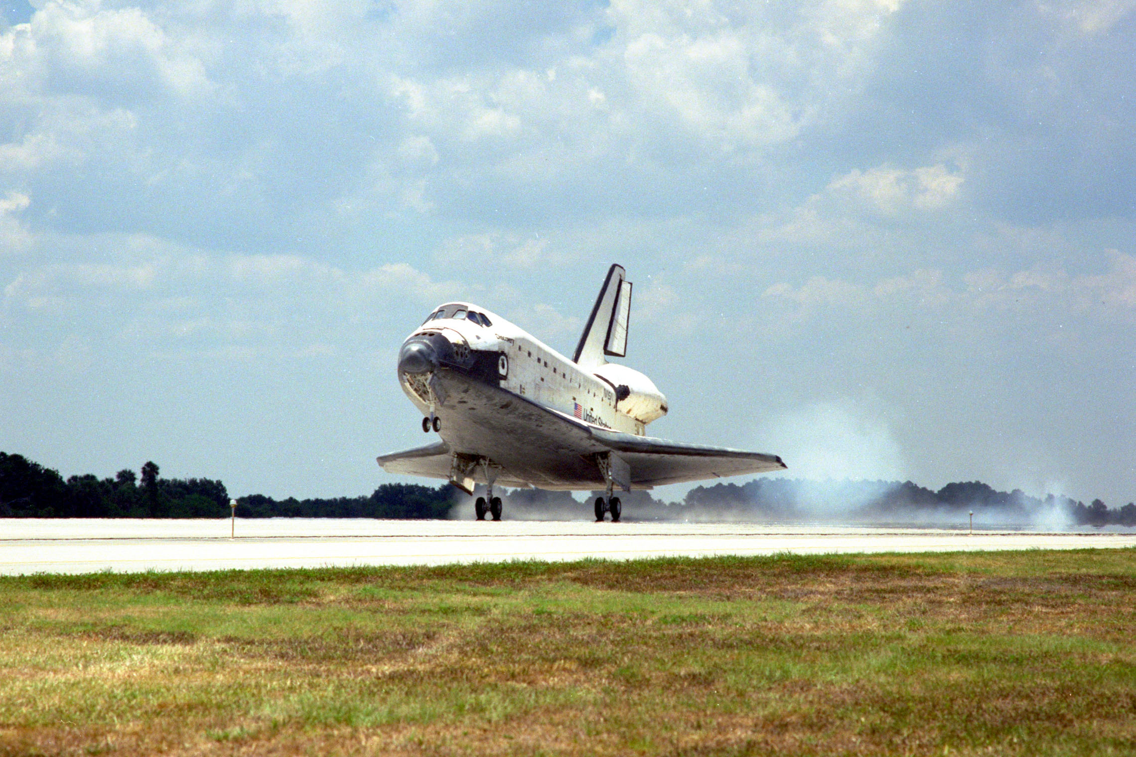 Space Shuttle Discovery lands at the end of STS-91, ending the Shuttle-Mir Program